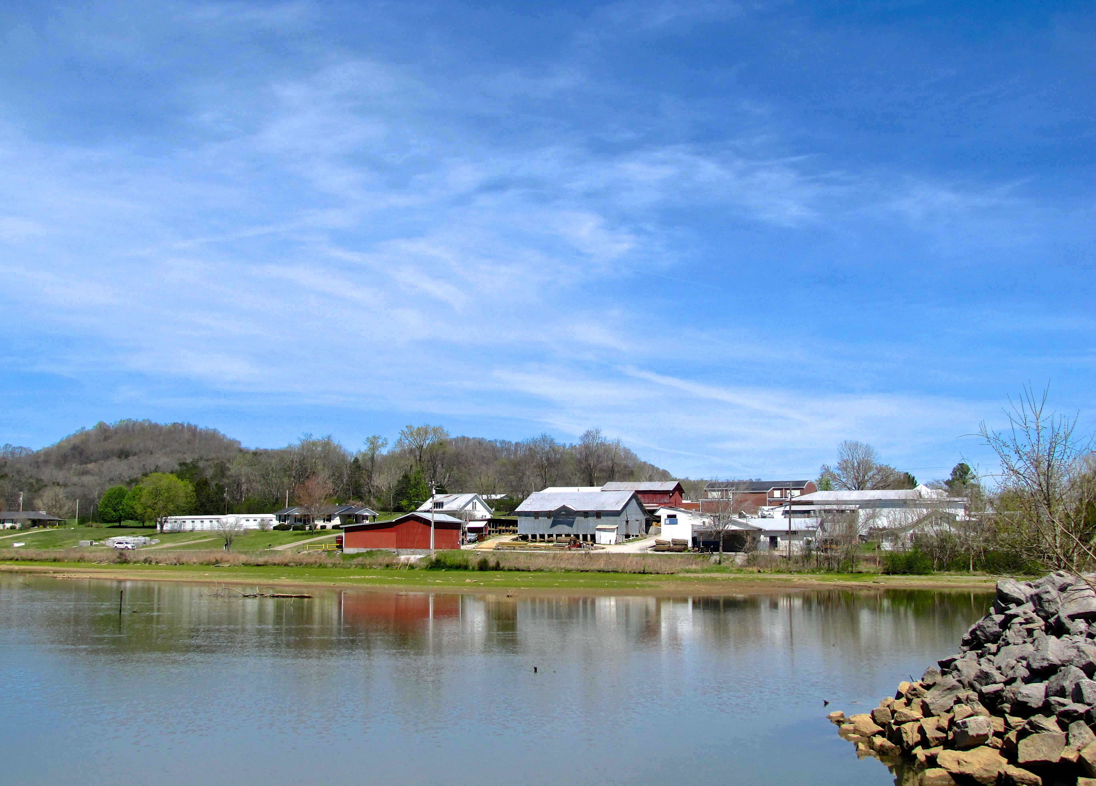 The community of Defeated, Tennessee, United States. Friendship Hollow Branch, a tributary of Defeated Creek, is in the foreground.